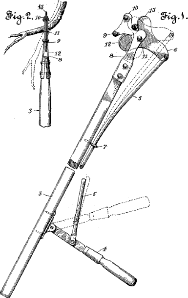 An averruncator from United States Patent Application 877220.